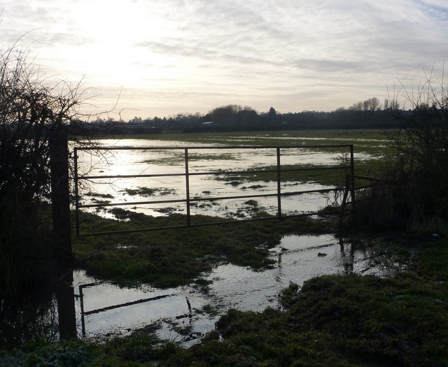 Gateway into wintry fields Low lying fields by Grove Lane east of Retford had been flooded and then frozen.